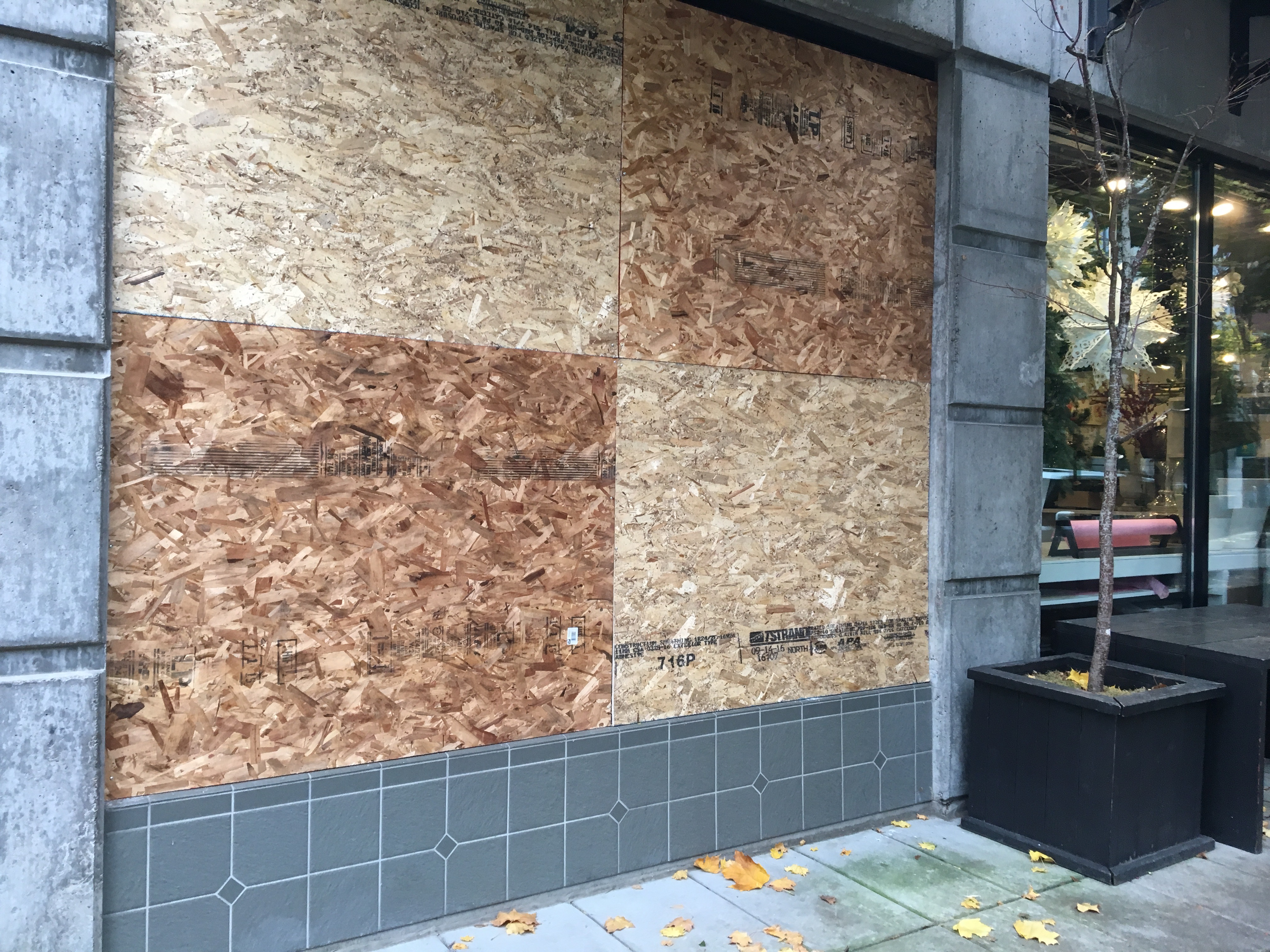 Damaged stores after the anti-Donald Trump riots in Portland, Oregon in November 2016